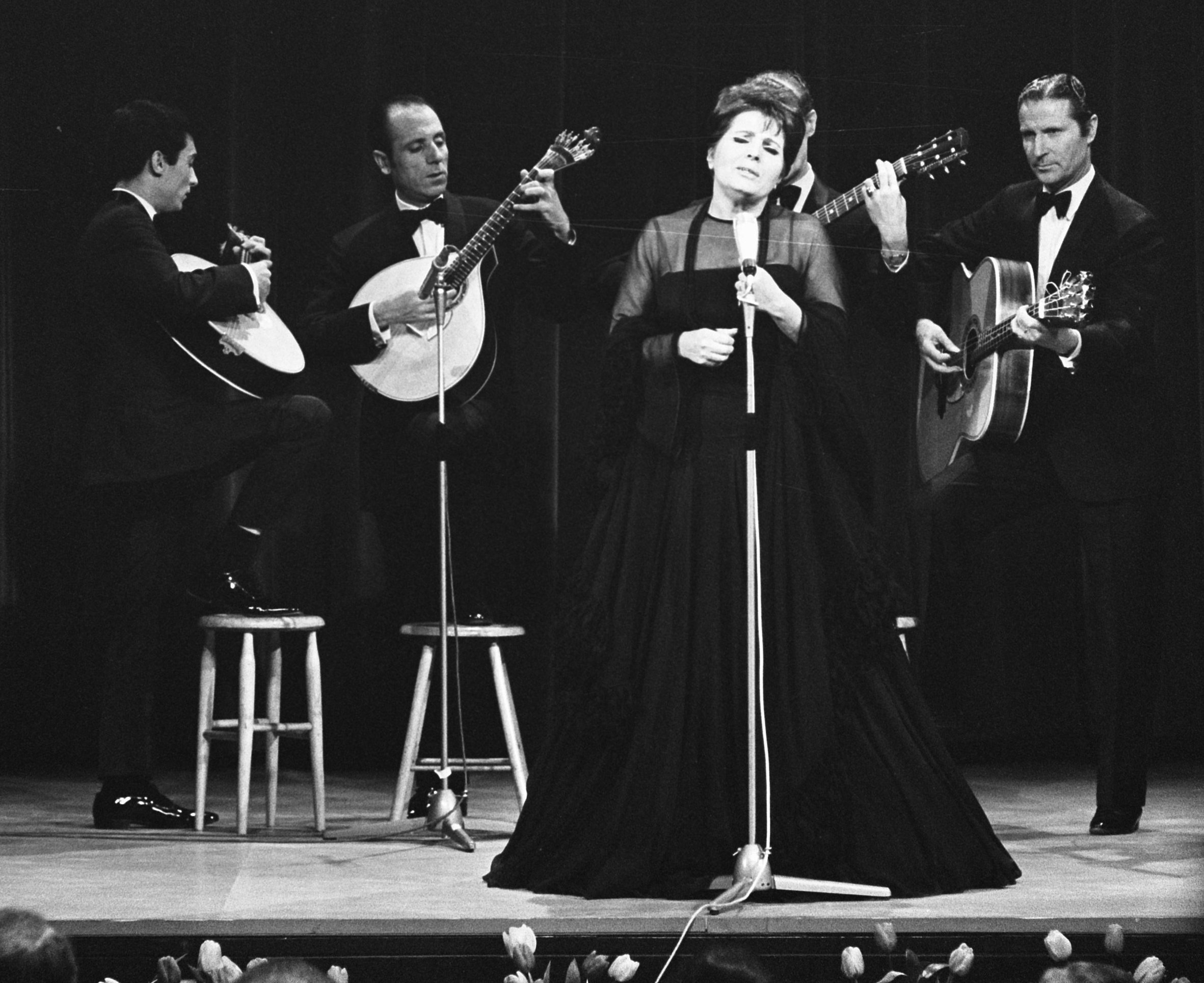 Amalia Rodrigues at Grand Gala du Disque Populaire in Congrescentrum (the Netherlands). 7 March 1969